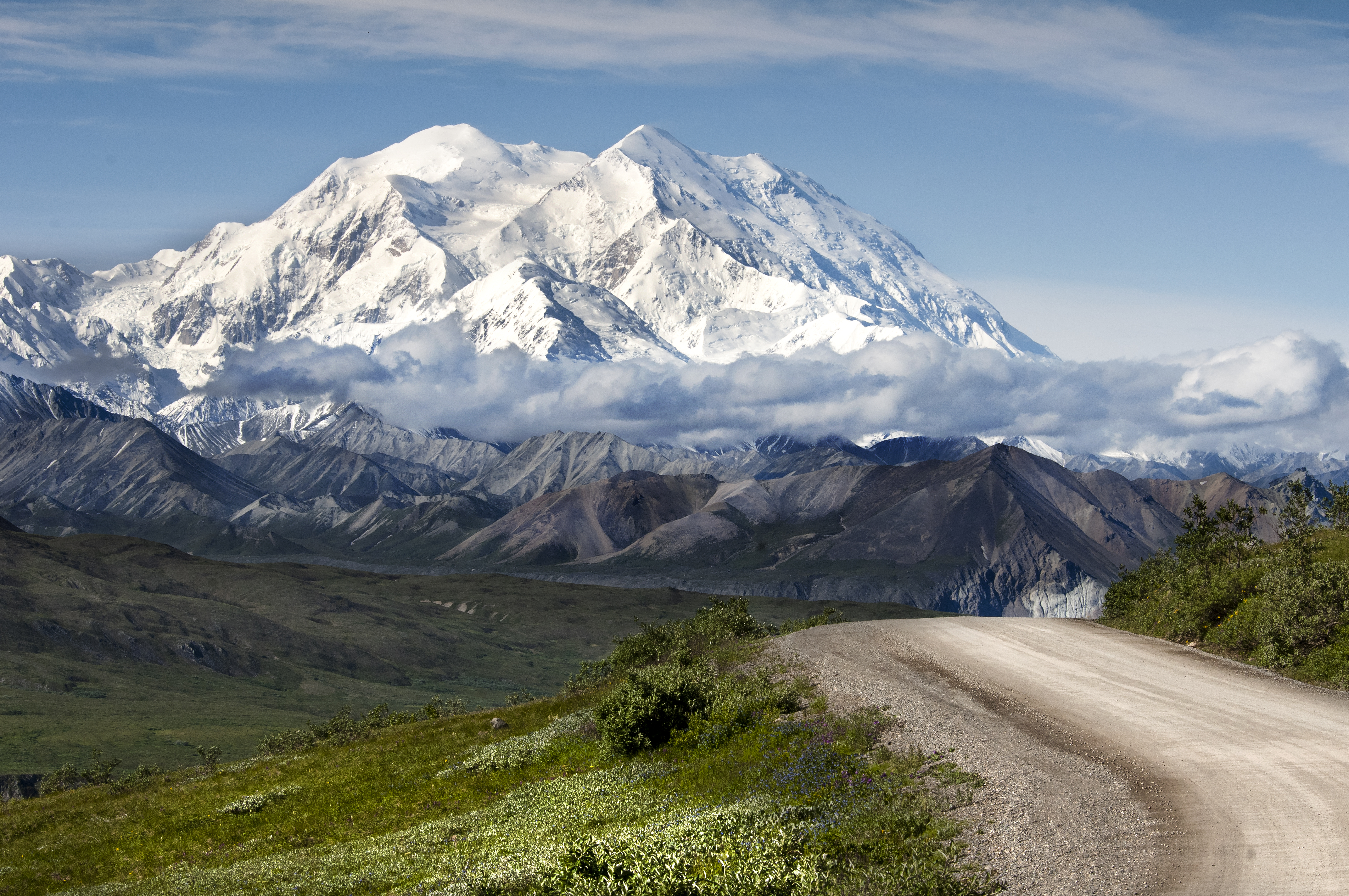 Denali National Park and Preserve NPS Photo Tim Rains